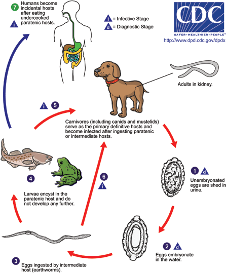 Life cycle of Dioctophyme renale, the giant kidney worm.